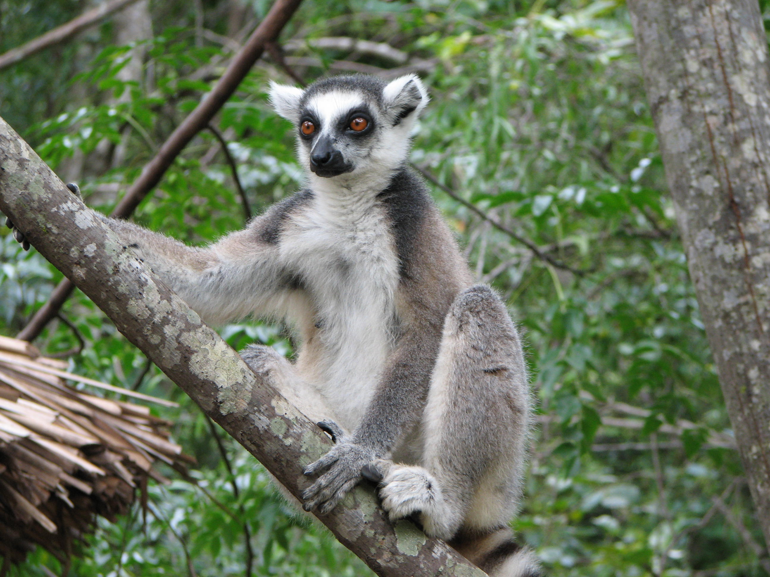 Ring-tailed lemur in Isalo National Park, Madagascar